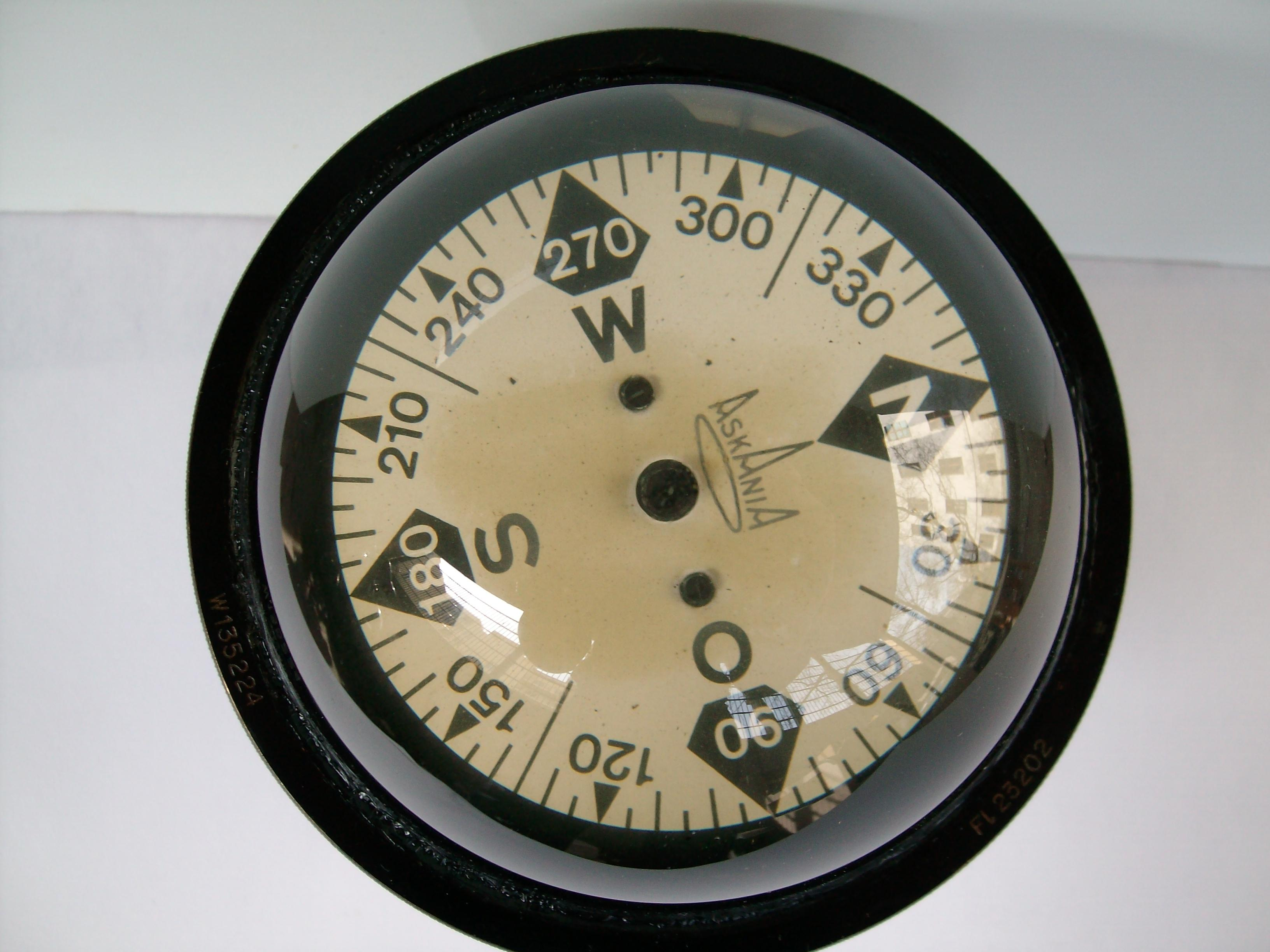 Aviation compass from the 30's made by Askania in Berlin